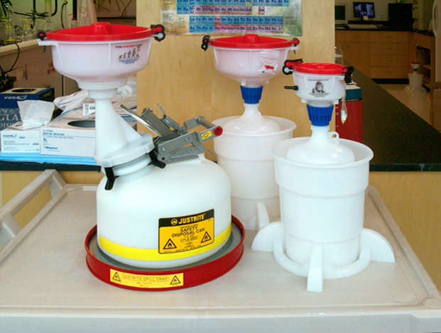 ECO Funnels attached to plastic waste bottles and a funnel adaptation that fits common industrial containers.